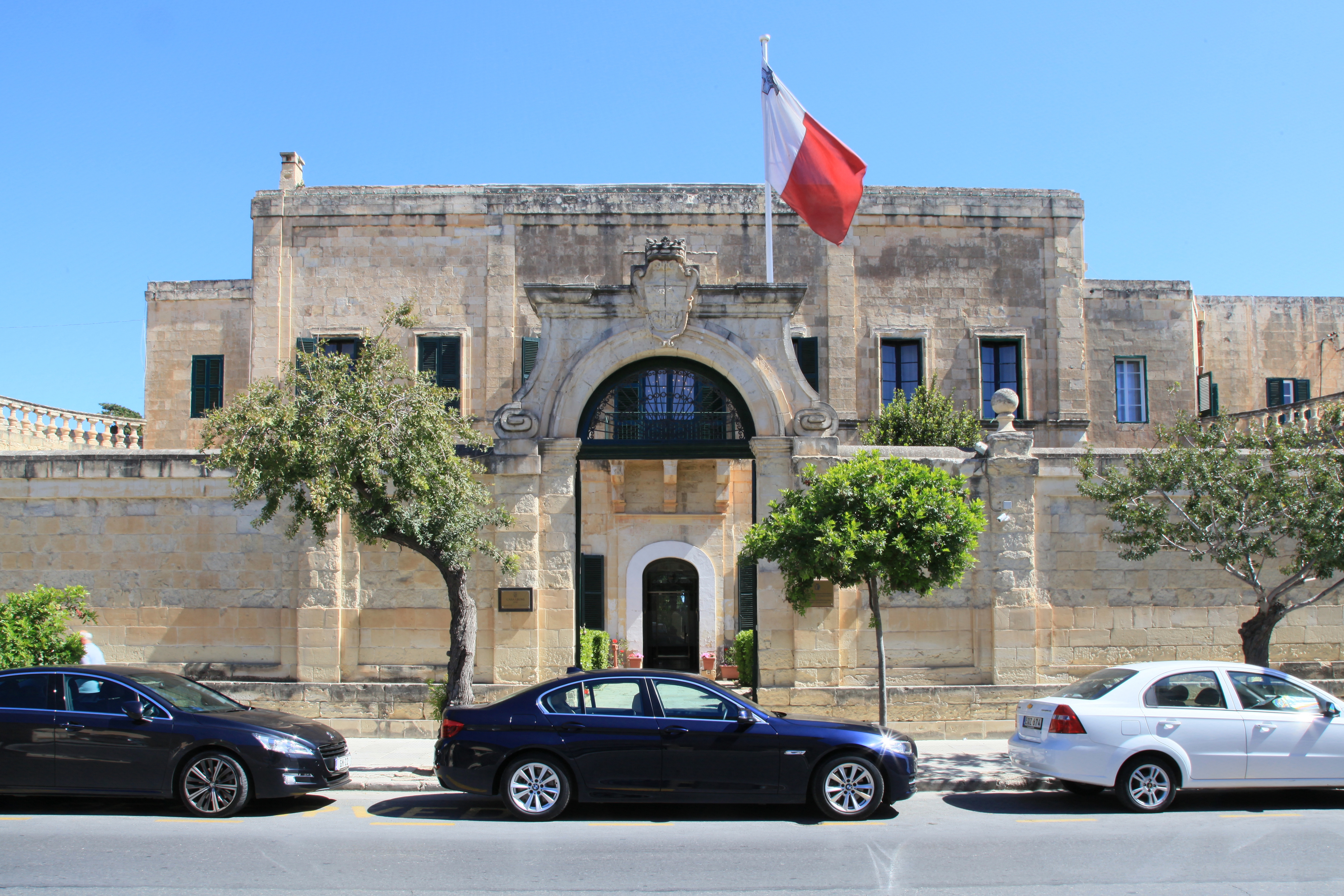 Casa Leoni at Triq il-Kbira San Ġużepp in Santa Venera, Malta